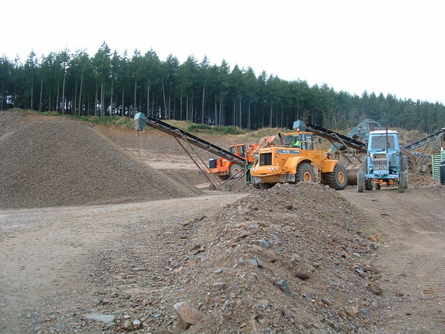 Sand and gravel extraction at the Glen of Rothes. These fluvio glacial deposits are probably kame terraces. This is one of several sand and gravel pits in the vicinity. This one cannot provide the finest building sand, suggesting the currents which deposited the materials were faster than elsewhere.